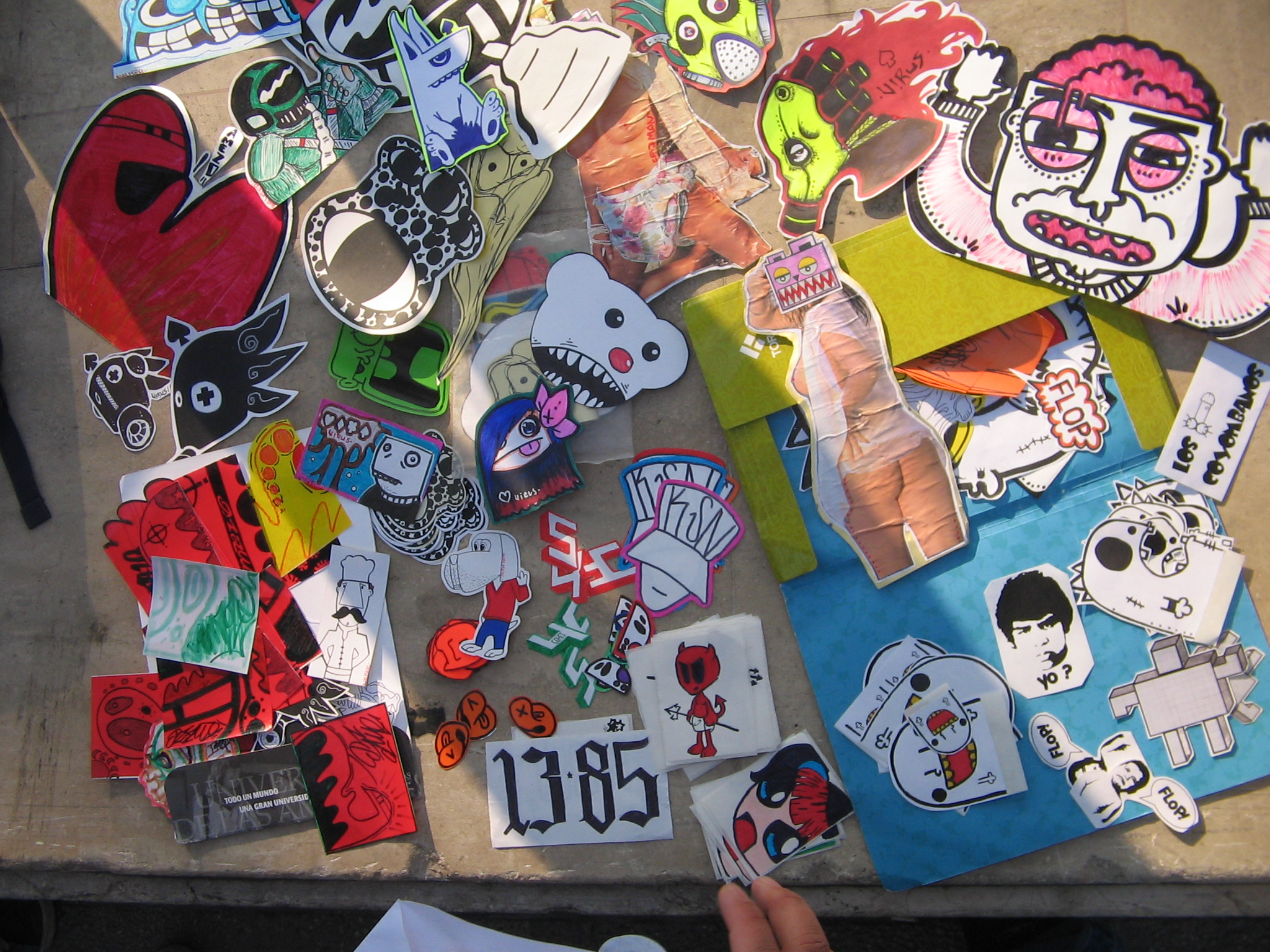 Stickers Chilenos